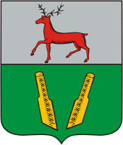 Lukoyanov (Nizhny Novgorod oblast), coat of arms (1781)